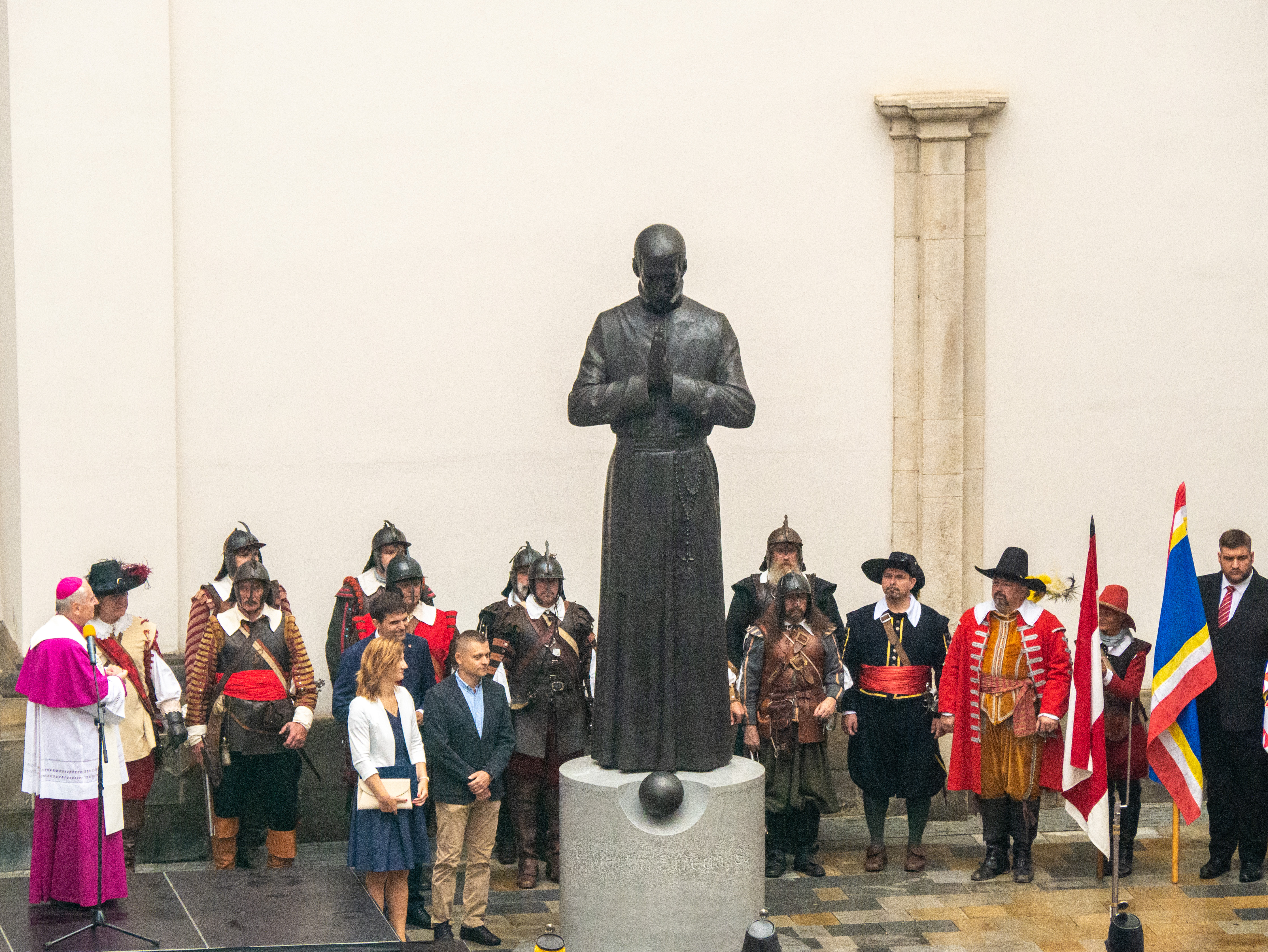 Unveiling of Martinus Stredonius's monument in Brno on 15th August 2020 during the 375th anniversary of the city victorious defense over Swedish army.